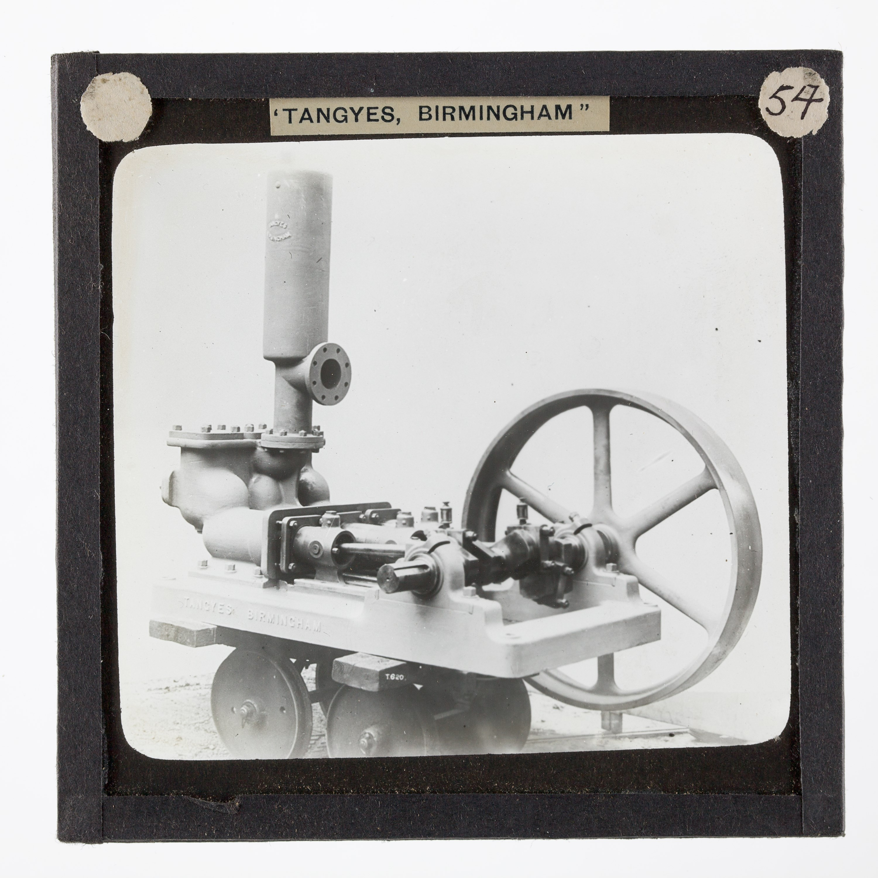 Tangye belt-driven three cylinder horizontal ram pump fitted with an accumulator.